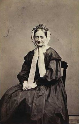 Christine Marie Løvmand (1803-1873), Danish painter